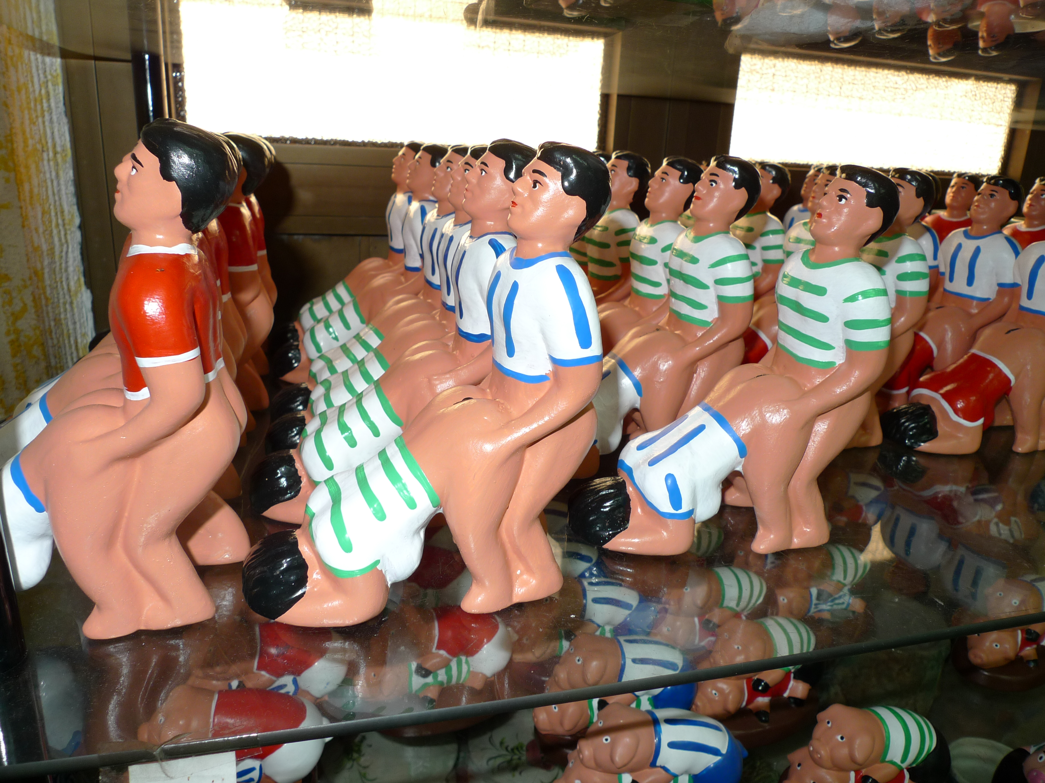 Association football rivarly between SL Benfica, Sporting CP and FC Porto.